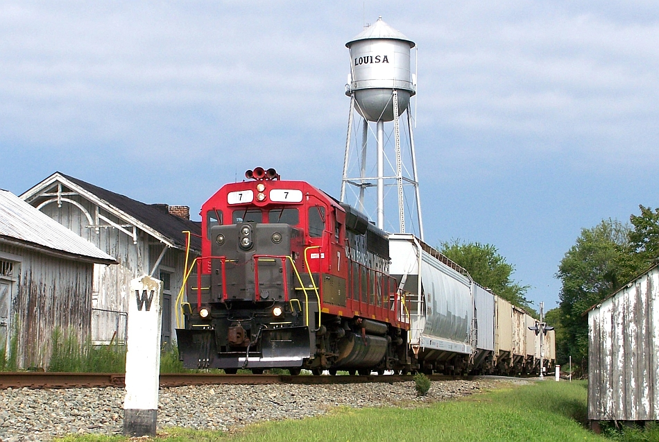 Buckingham Branch Railroad, Louisa, Virgnia. Photo by William J Grimes.